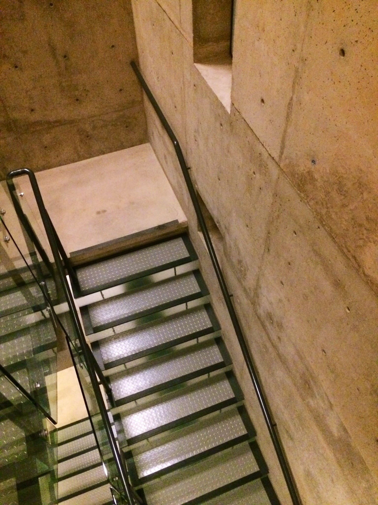 102 University Ave. Palo Alto, CA Designed by Joseph Bellomo Architects